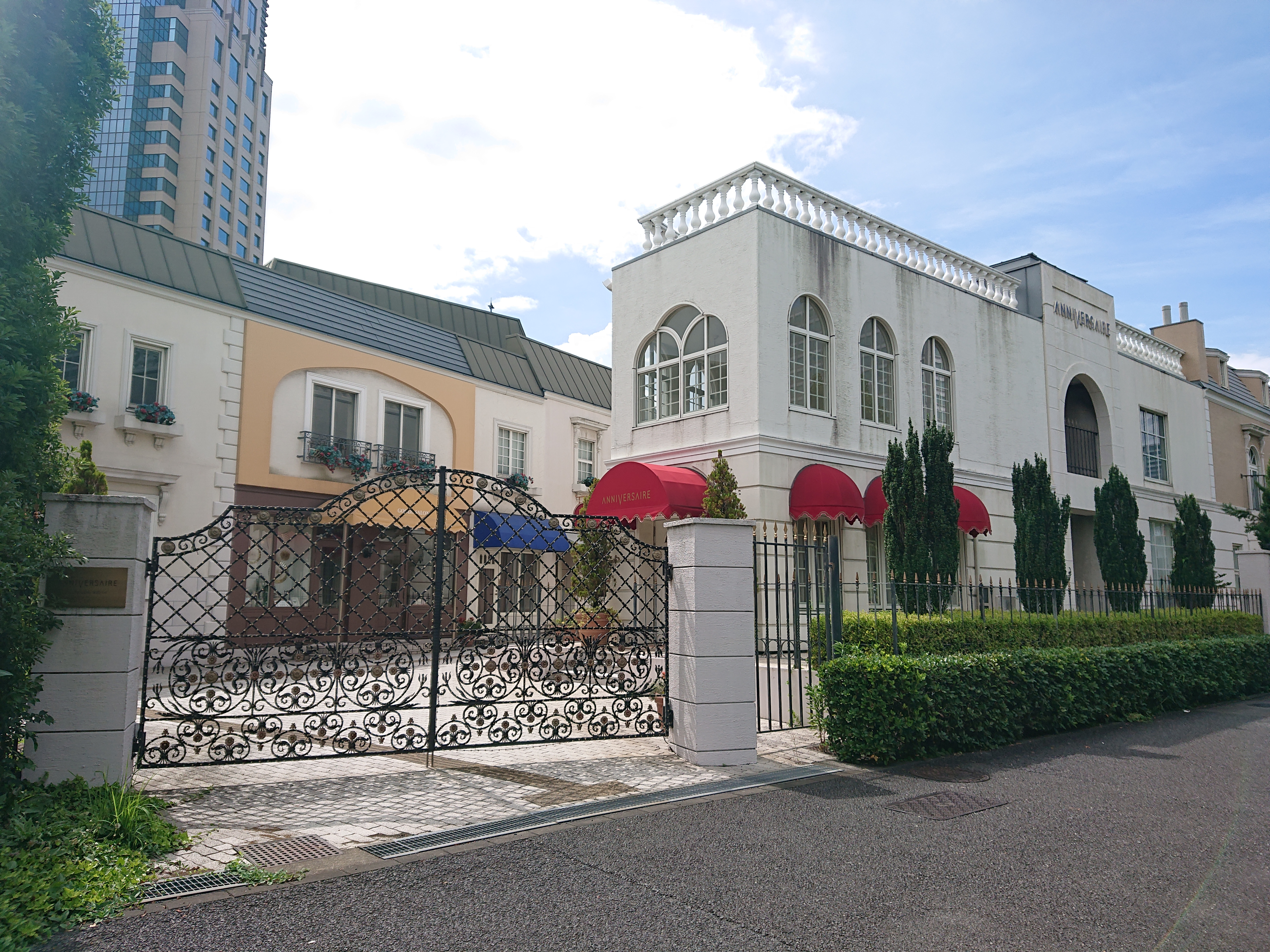 Anniversaire Tokyo Bay (アニヴェルセル 東京ベイ), located at 3-3-10 Ariake, Koto, Tokyo, Japan